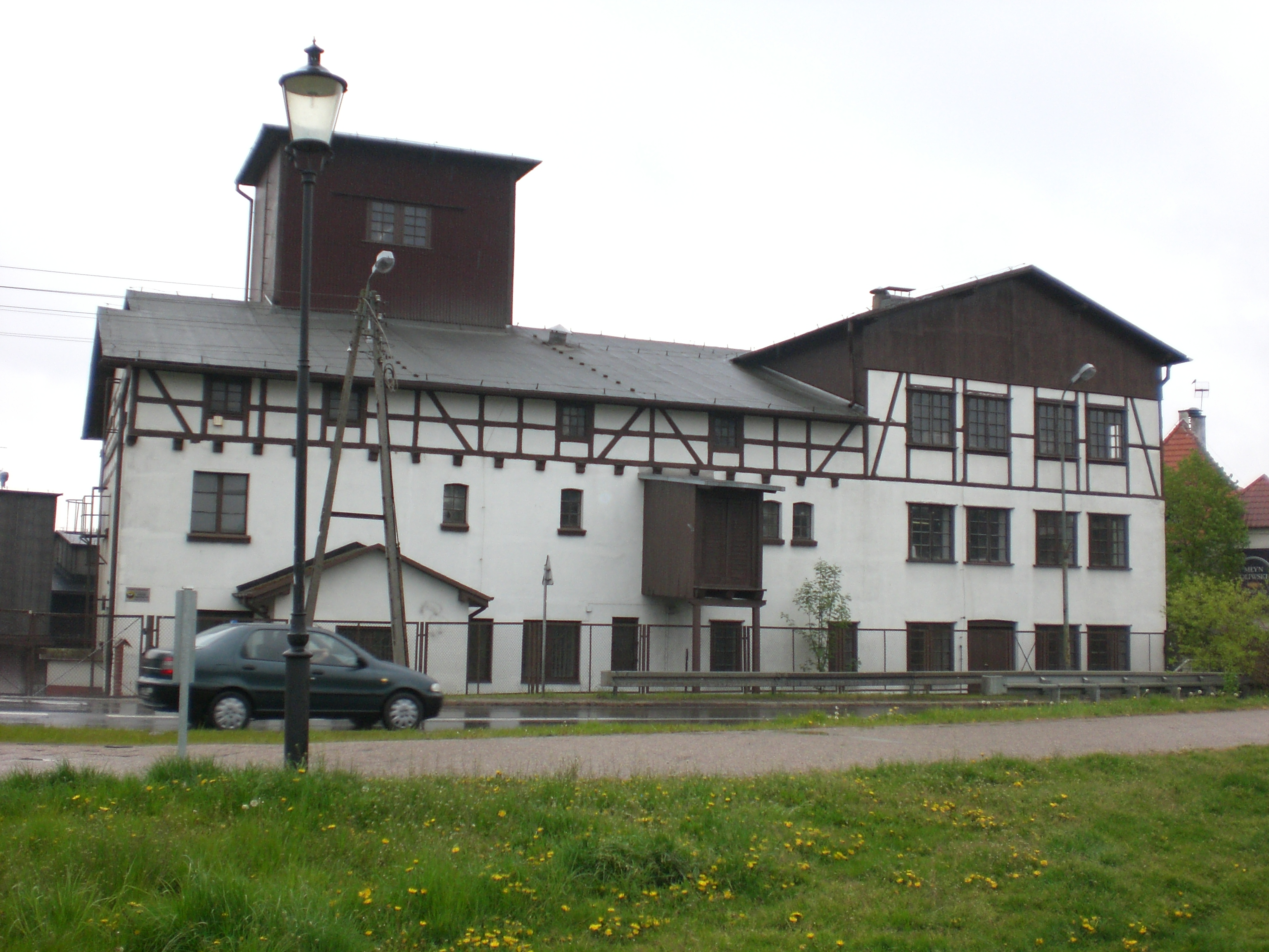 Old mill in Gdańsk Oliwa